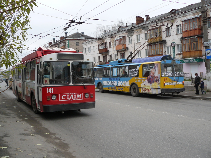 Trolleybuses in Berezniki: BTZ-5276 #141 and ZiU-9 #112